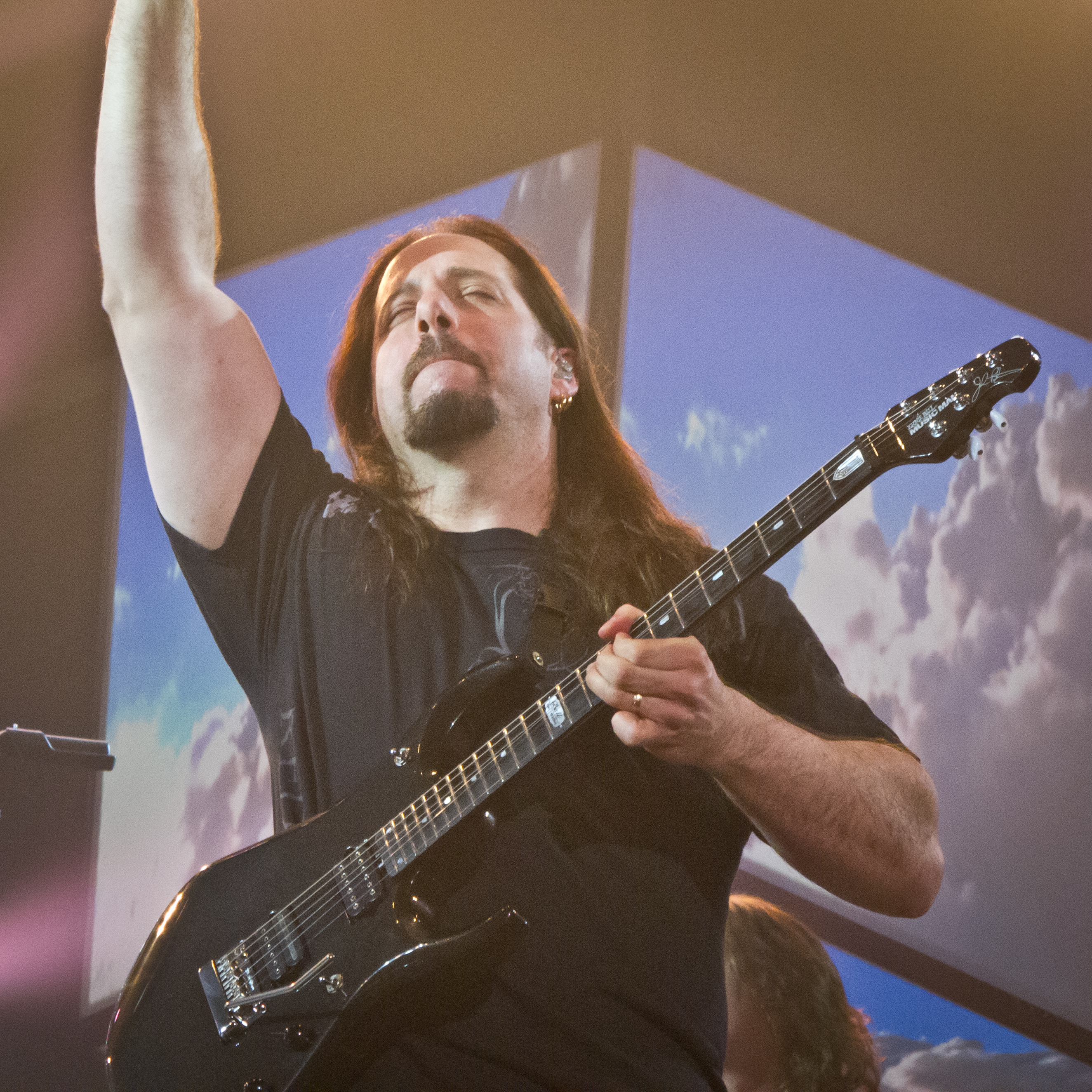 John Petrucci in concert with Dream Theater in 2012.